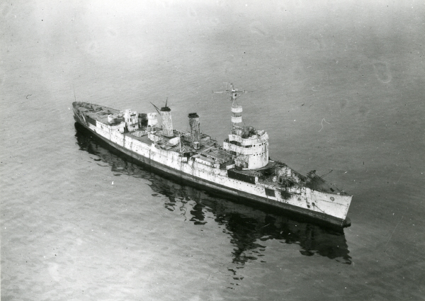 The Swedish cruser HMS Fylgia as a target ship.